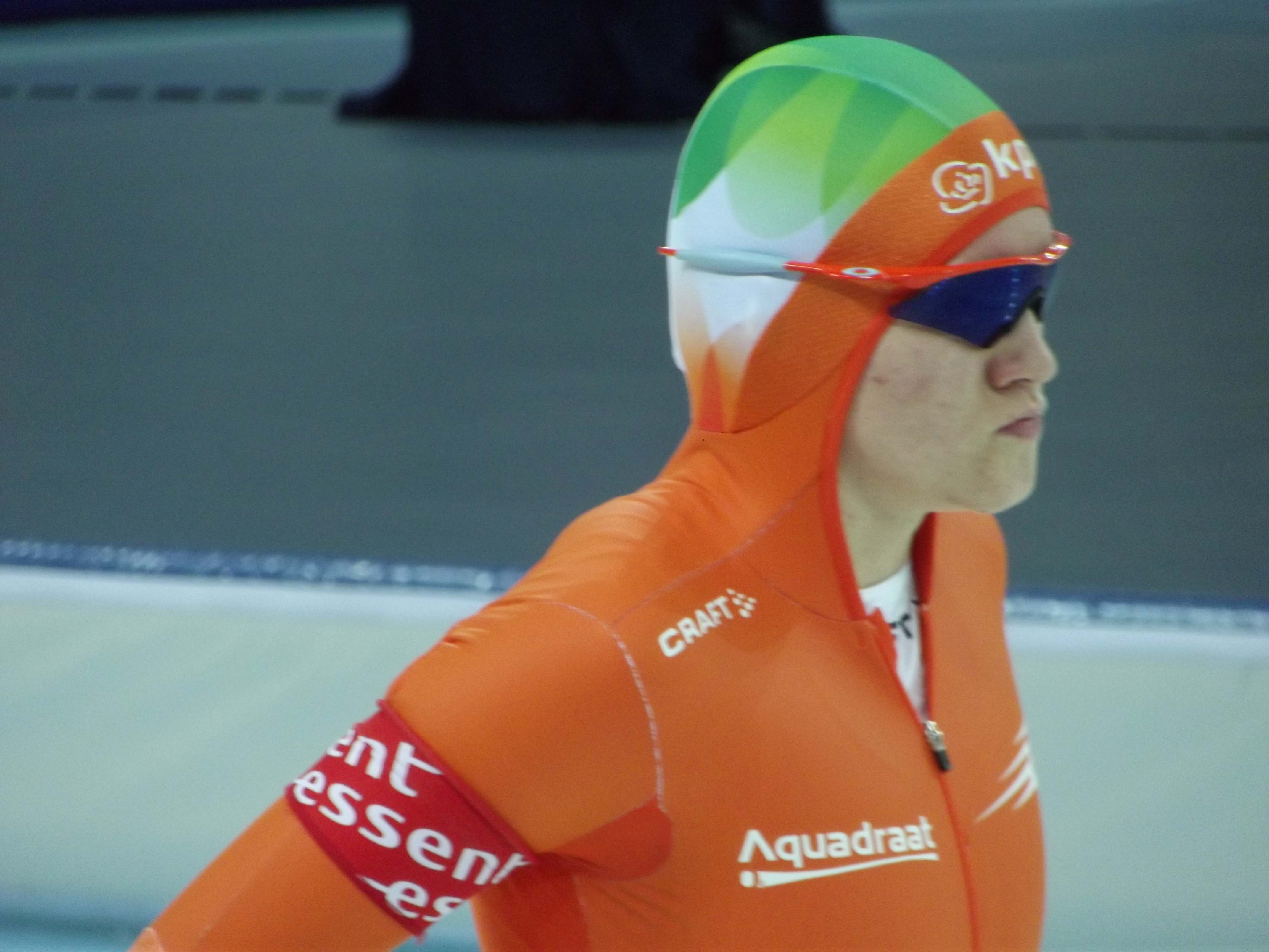 2013 World Single Distance Speed Skating Championships